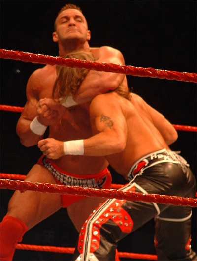 Chris Masters locks Shawn Michaels in a headlock during a WWE house show held at the MEN Arena in Manchester, United Kingdom on November 17, 2005.